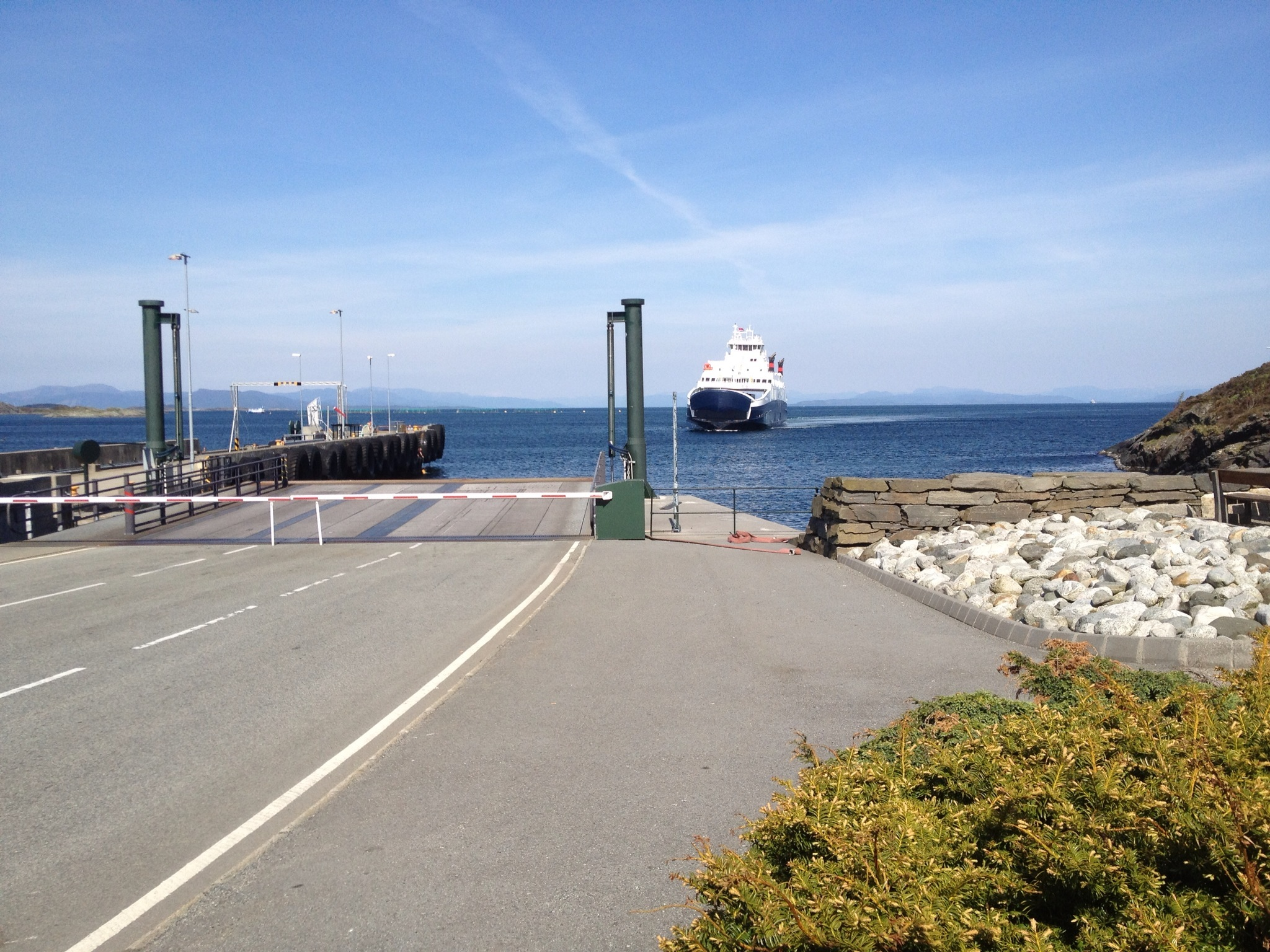 The Ferry MF Boknafjord arrivals Arsvågen